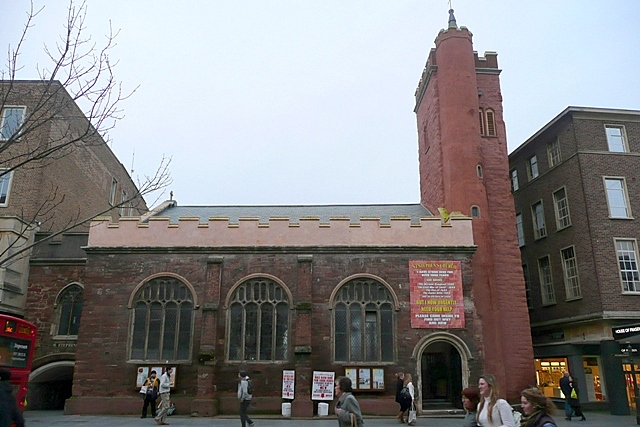 St. Stephen's church When the centre of Exeter was bombed in 1942, this church on the High Street was one of the few buildings to survive.